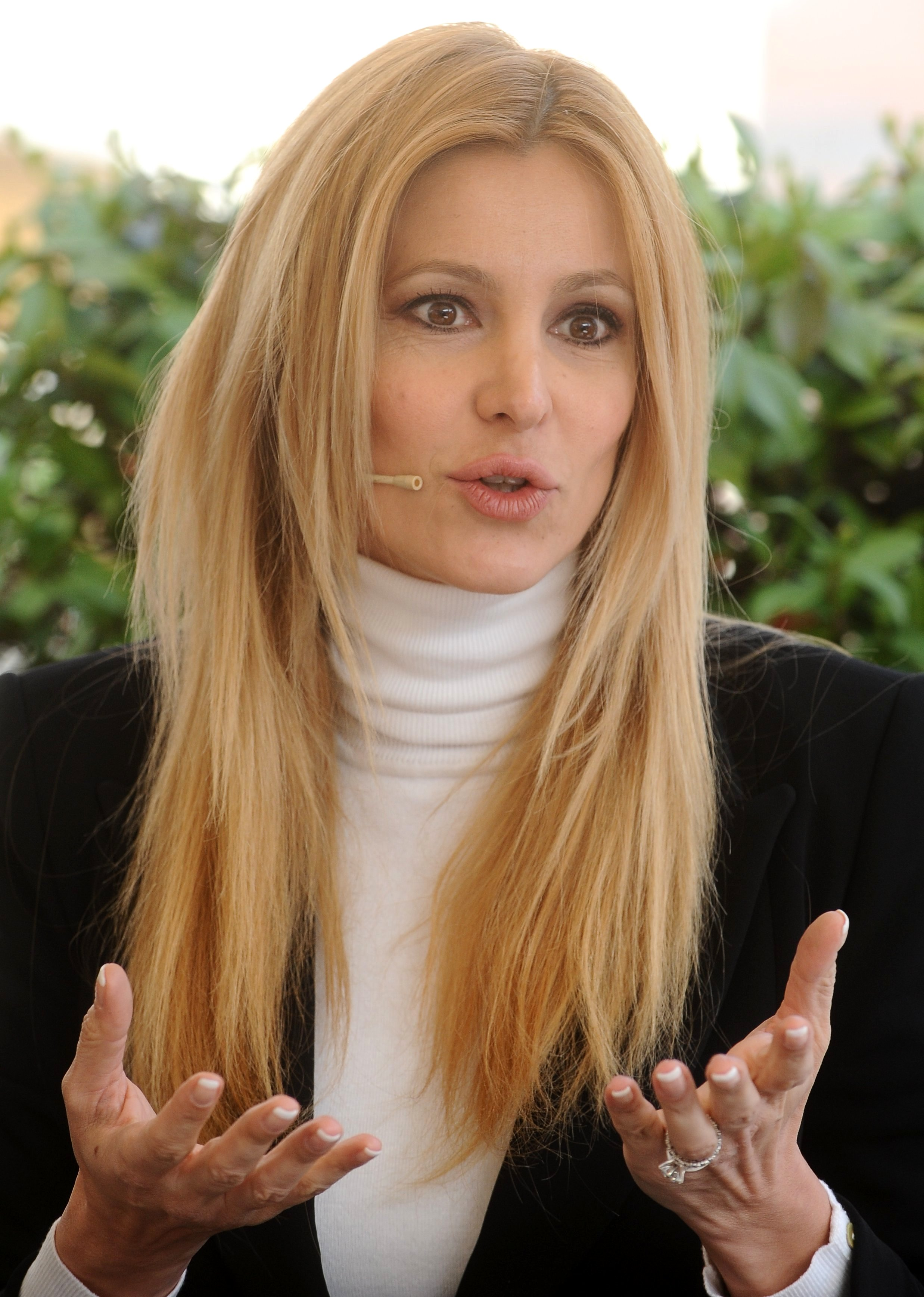 Adriana Volpe in Piazza Duomo, Trento for Trentino.live.